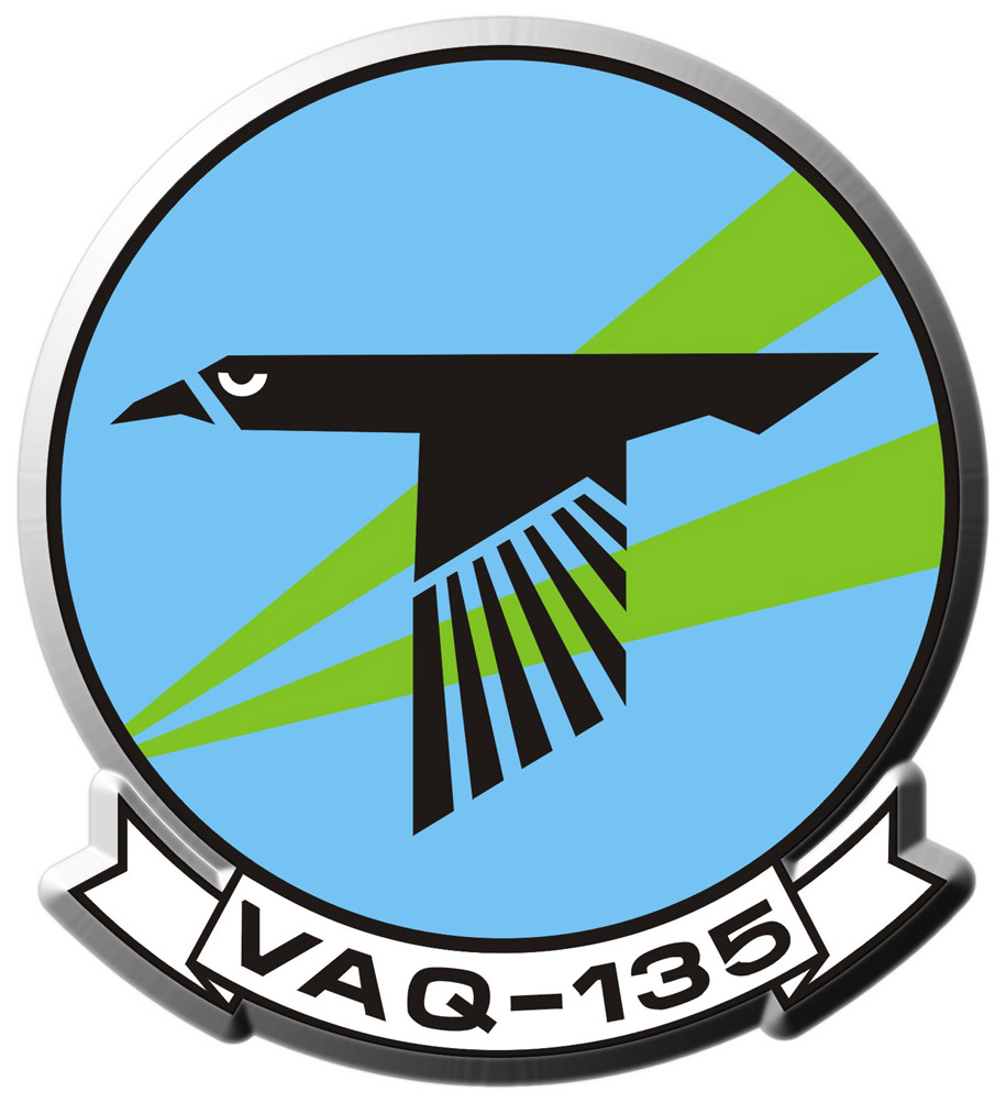 Insignia of the U.S. Navy Electronic Attack Squadron 135 (VAQ-135) "Black Ravens". The insignia was approved on 20 November 1984.